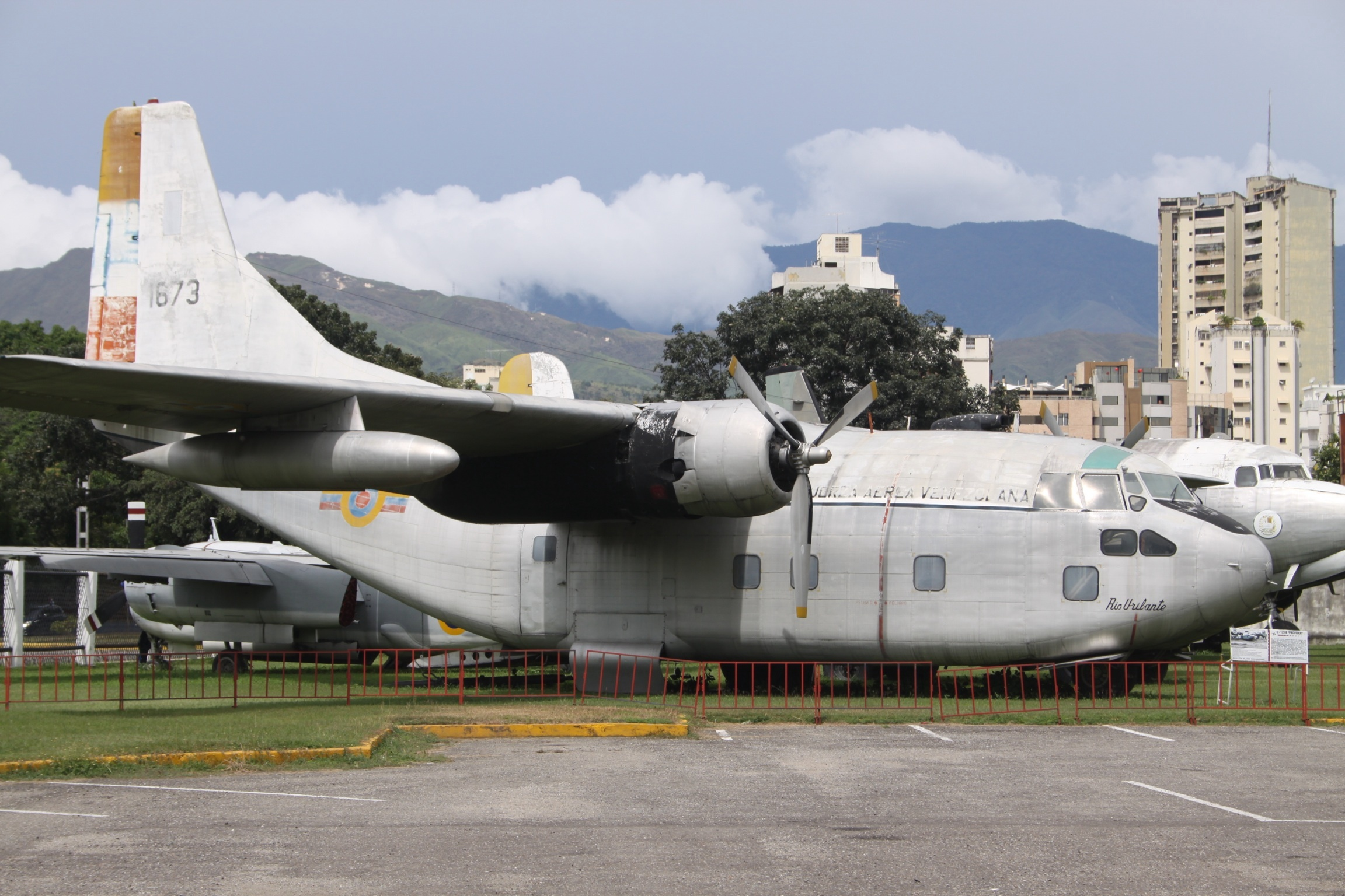 At Museo Aeronáutico de Maracay